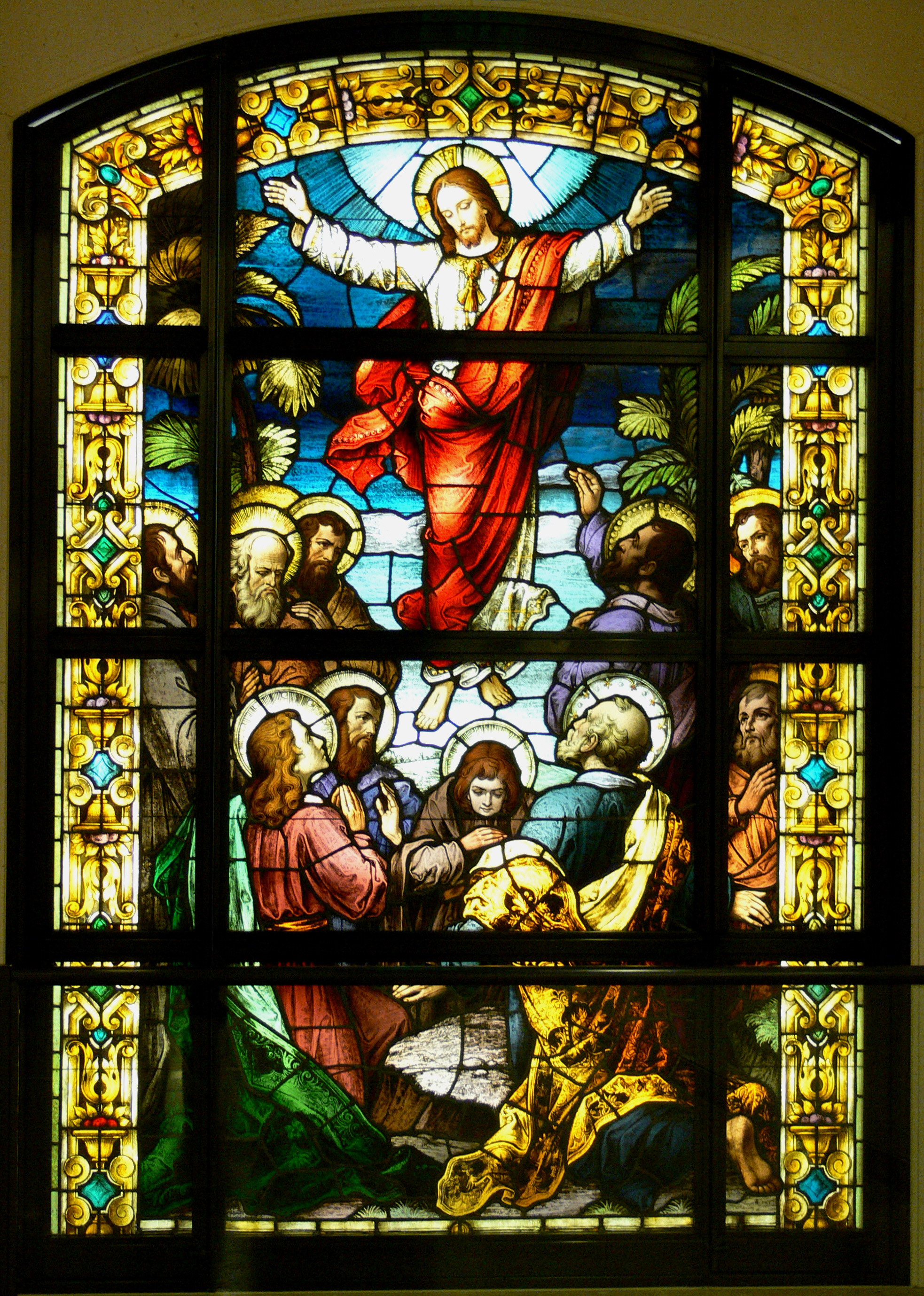 Stained glass windows in the Mausoleum of the Roman Catholic Cathedral of Our Lady of the Angels, Los Angeles, California; originally created in the 1920s for Saint Vibiana Cathedral, Los Angeles Ascension of Christ